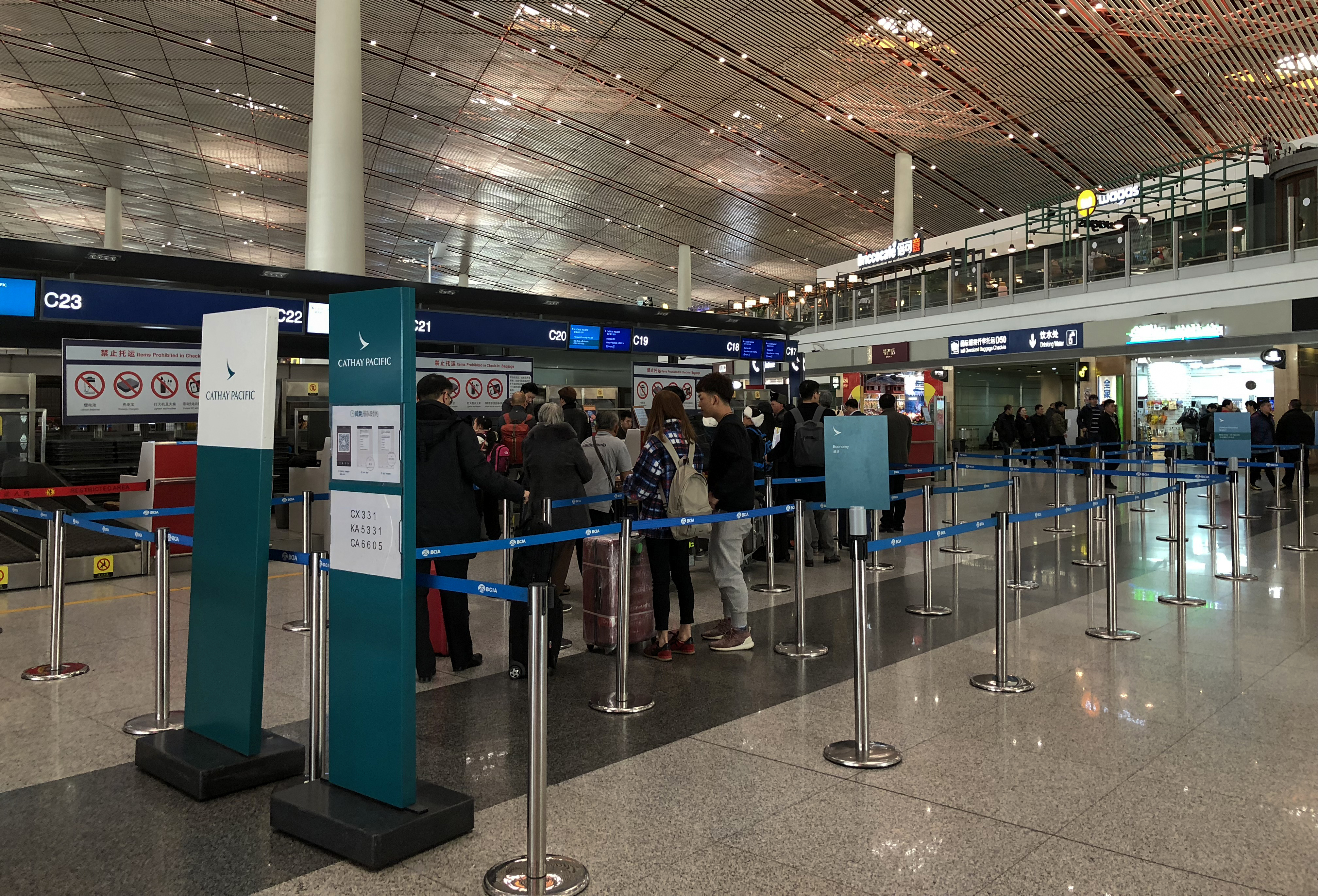 The closest from FamilyMart.